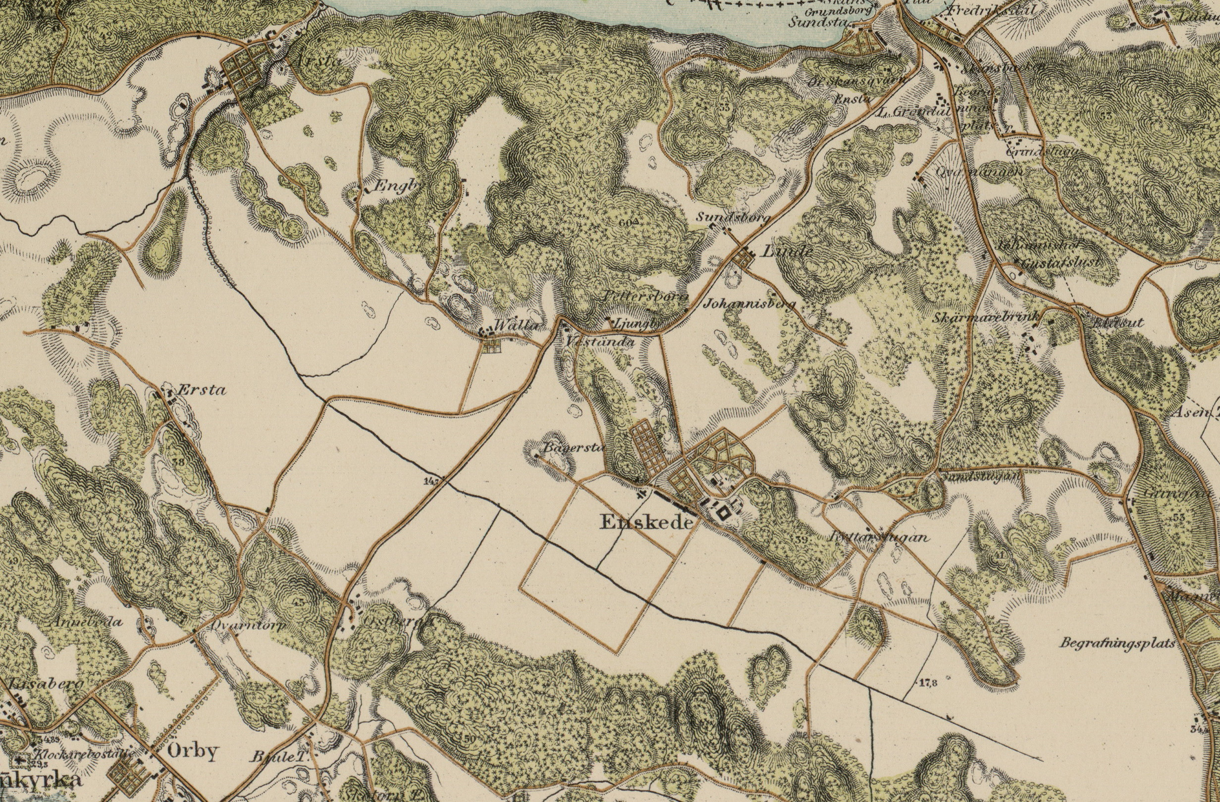 Del av "Trakten omkring Stockholm i IX blad". Blad V : Mellersta bladet / Utgifven af Topografiska Corpsen 1861Blad V visar bl.a.Valla gärde (Årstafältet)